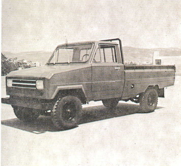 A picture of a Motoemil Autofarma truck, which I included in my book "Made in Greece" (cited in the Motoemil article).